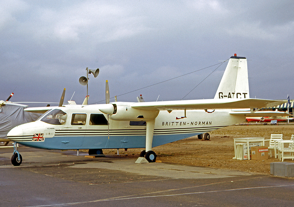 The prototype Britten-Norman BN2 Islander G-ATCT at the Paris Air Show in 1965